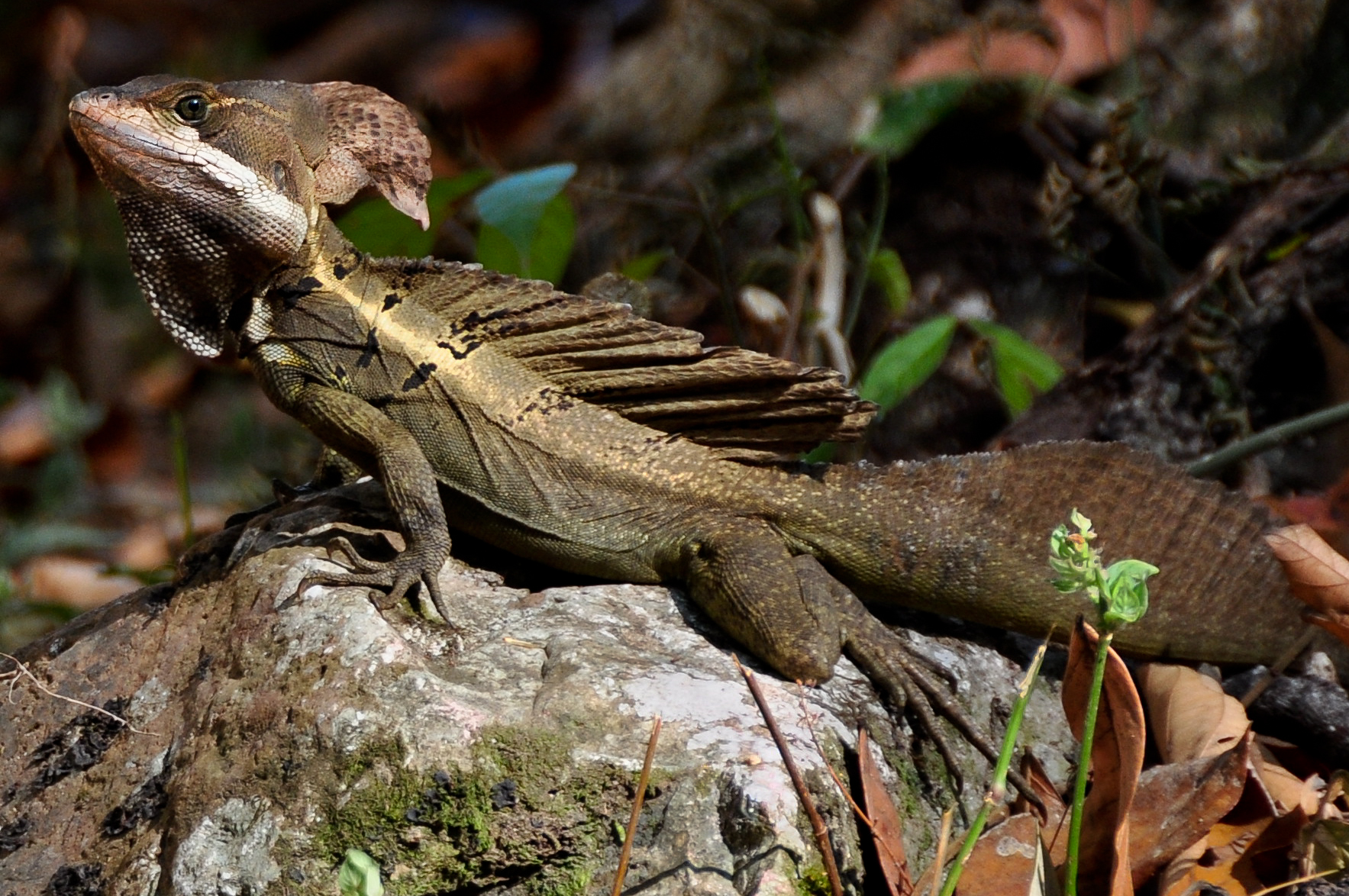 A Basiliscus vittatus on a rock, Costa Rica